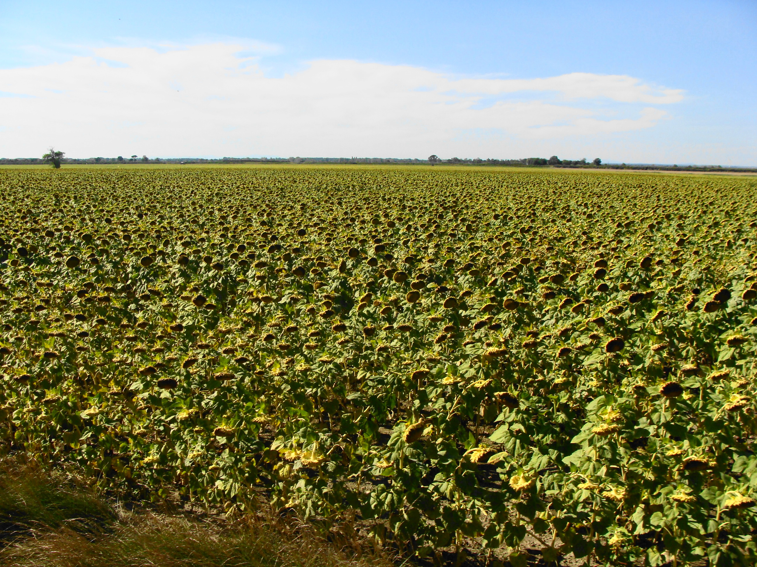 Sunflowers field, Provence, France Pole słoneczników, Prowansja, francja